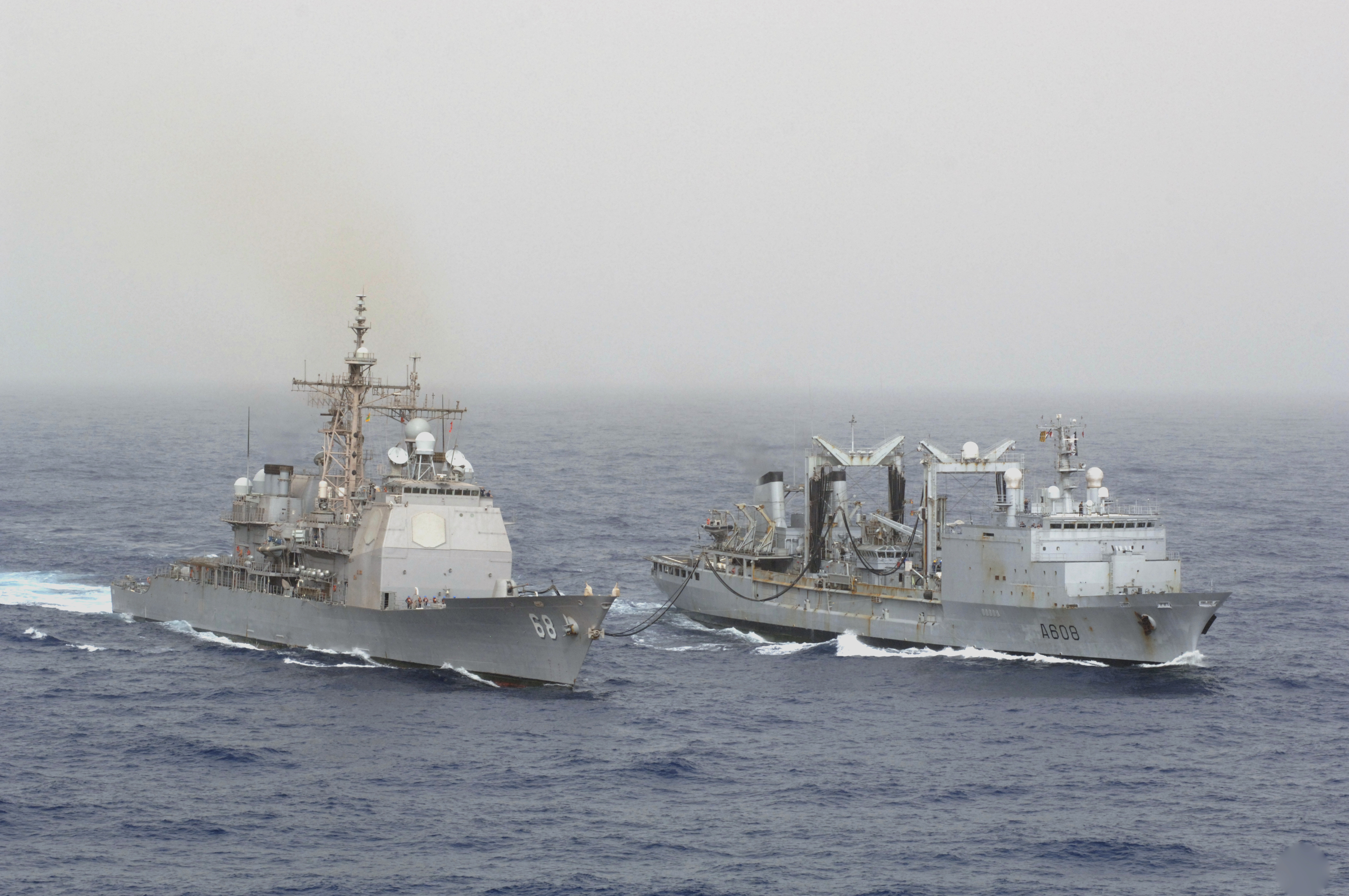 090706-N-9301D-110 GULF OF ADEN (July 6, 2009) The guided-missile cruiser USS Anzio (CG-68) conducts an underway replenishment with the French Durance-class tanker FS Var (A608). Anzio is the flagship for Combined Task Force 151, a multinational task force established to conduct counter-piracy operations under a mission-based mandate to actively deter, disrupt and suppress piracy off the coast of Somalia.